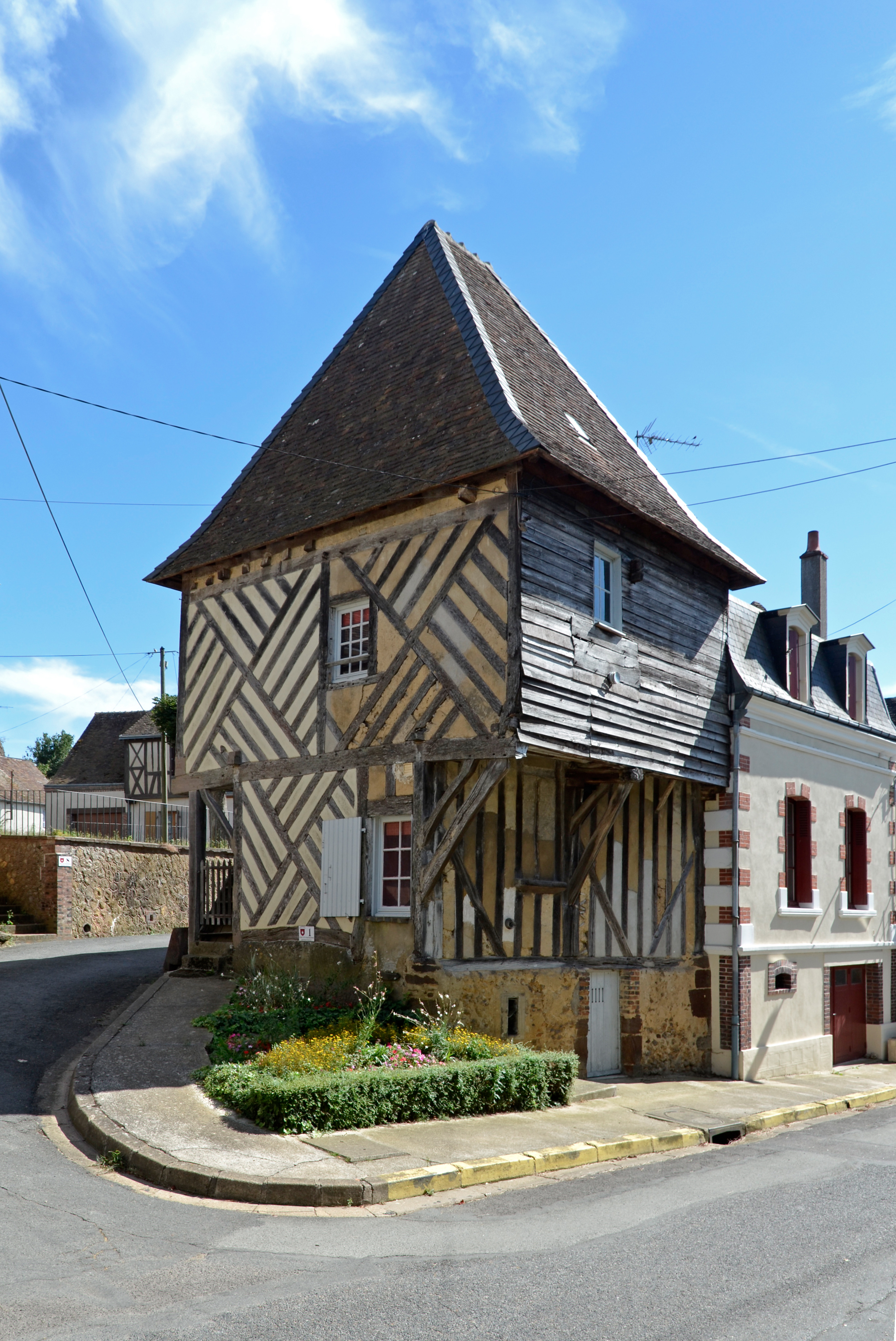 Timber frame house (XVth century) - Mondoubleau, Loir-et-Cher, France .